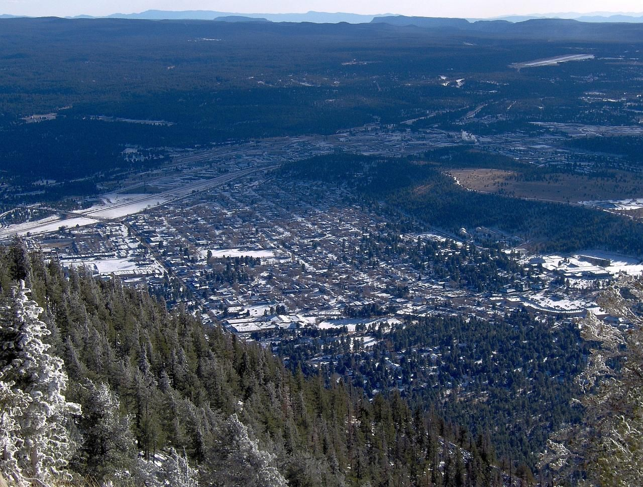 Image title: Flagstaff as viewed from atop mount Elden Image from Public domain images website